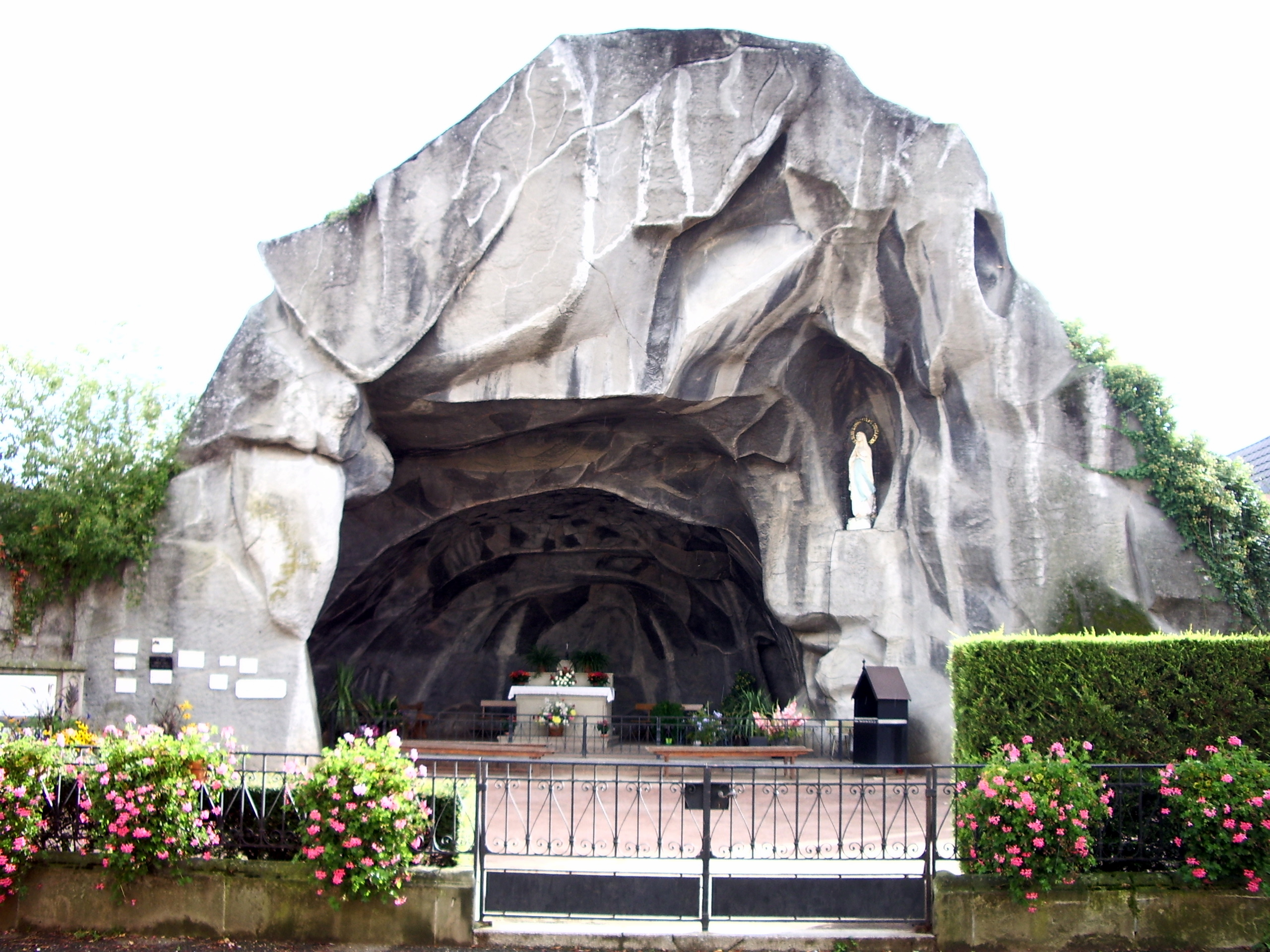 Wettolsheim